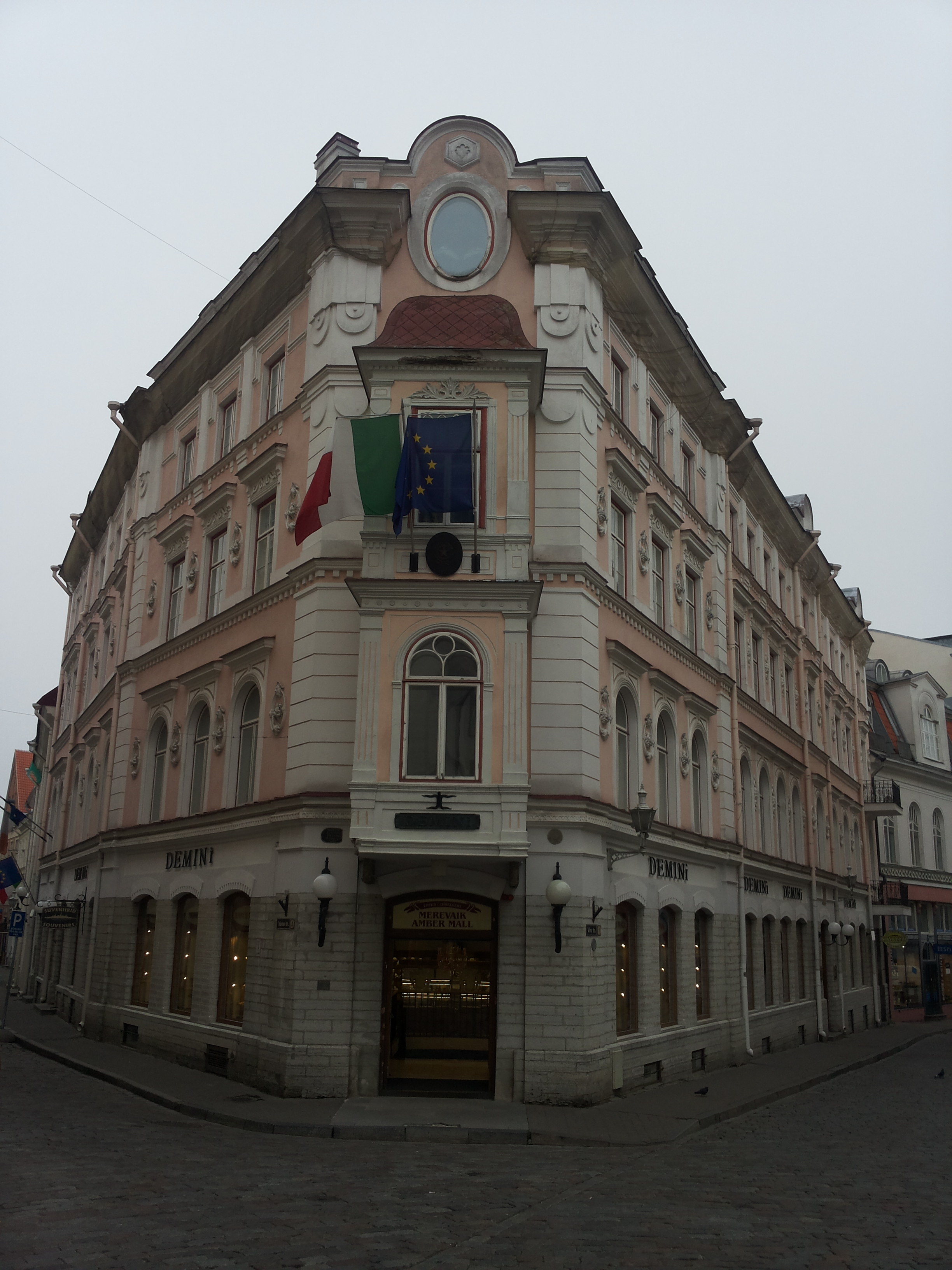 Building at Viru street 2, Tallinn